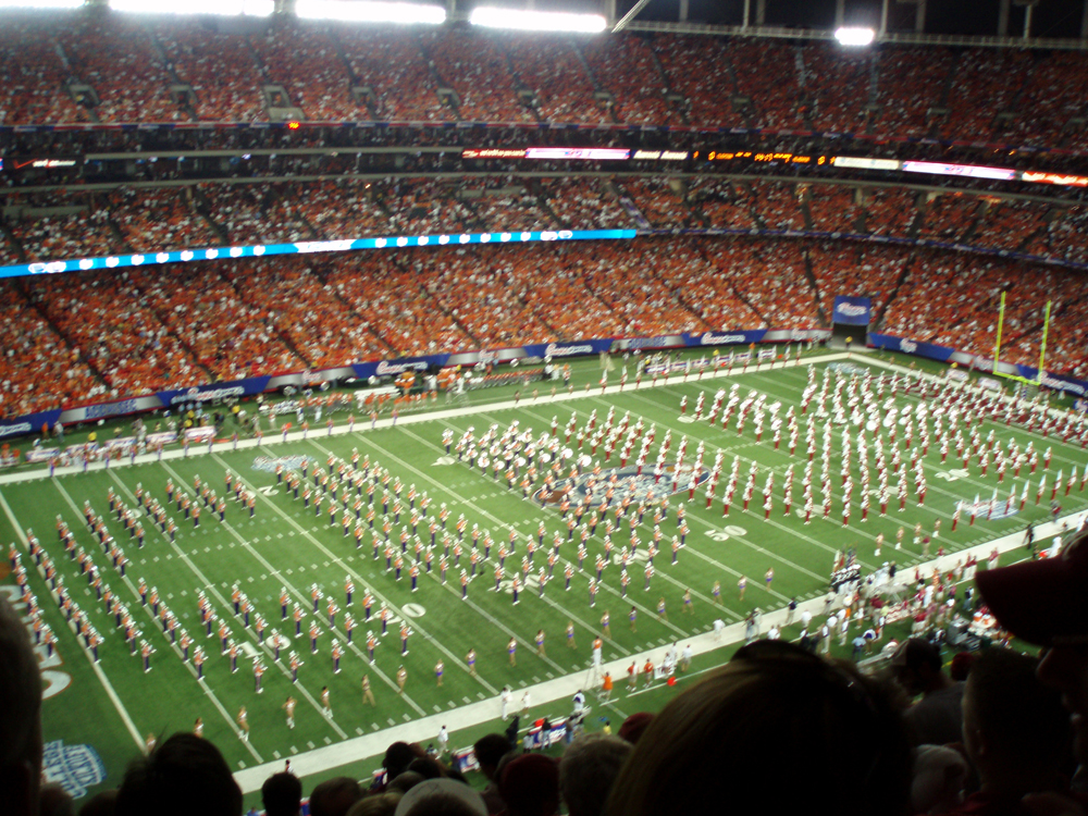 The Clemson Tiger Band (left) and the Million Dollar Band of Alabama (right) prior to the en:2008 Chick-fil-A College Kickoff.